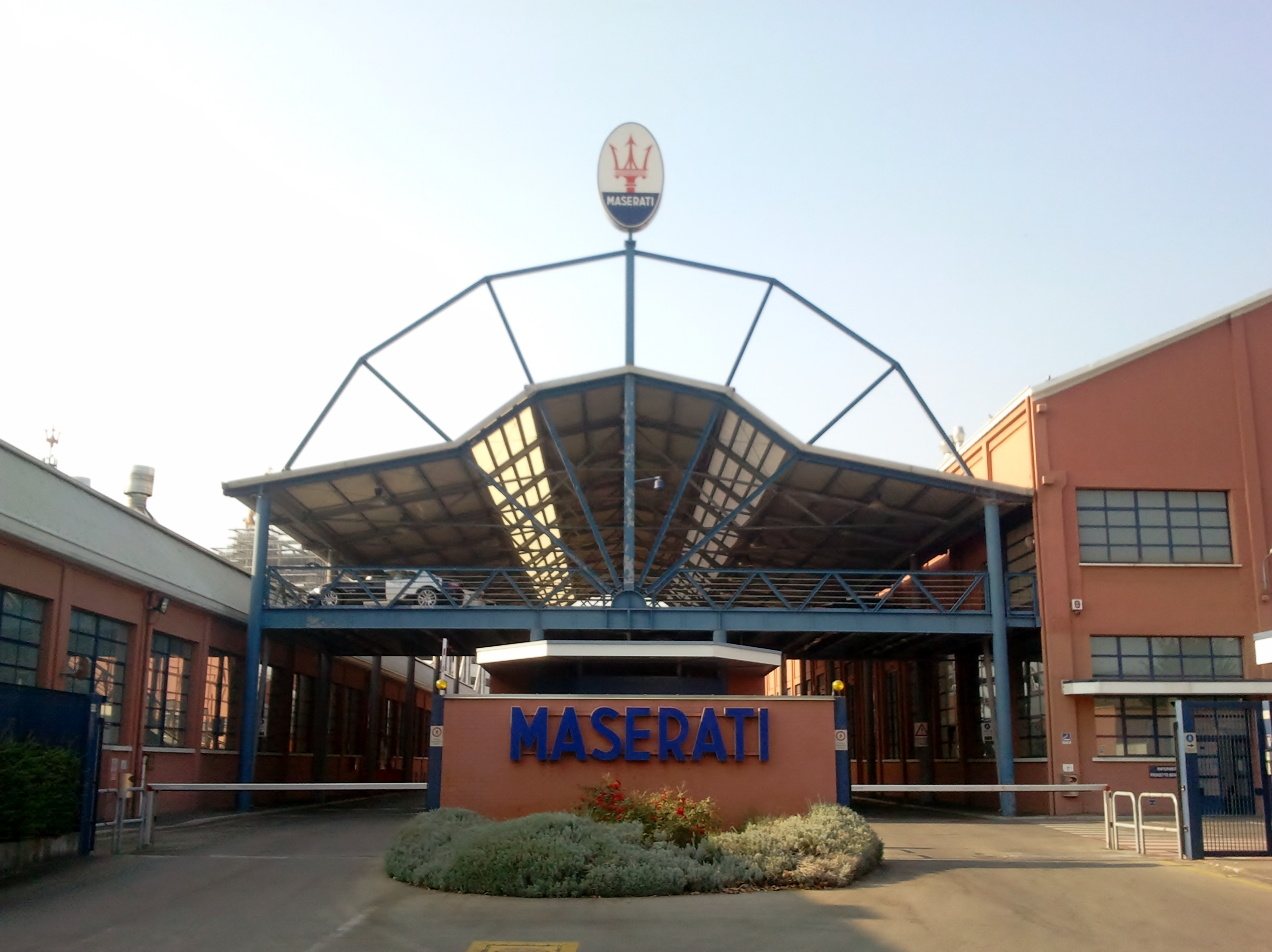 Maserarti - Modena Assembly Plant